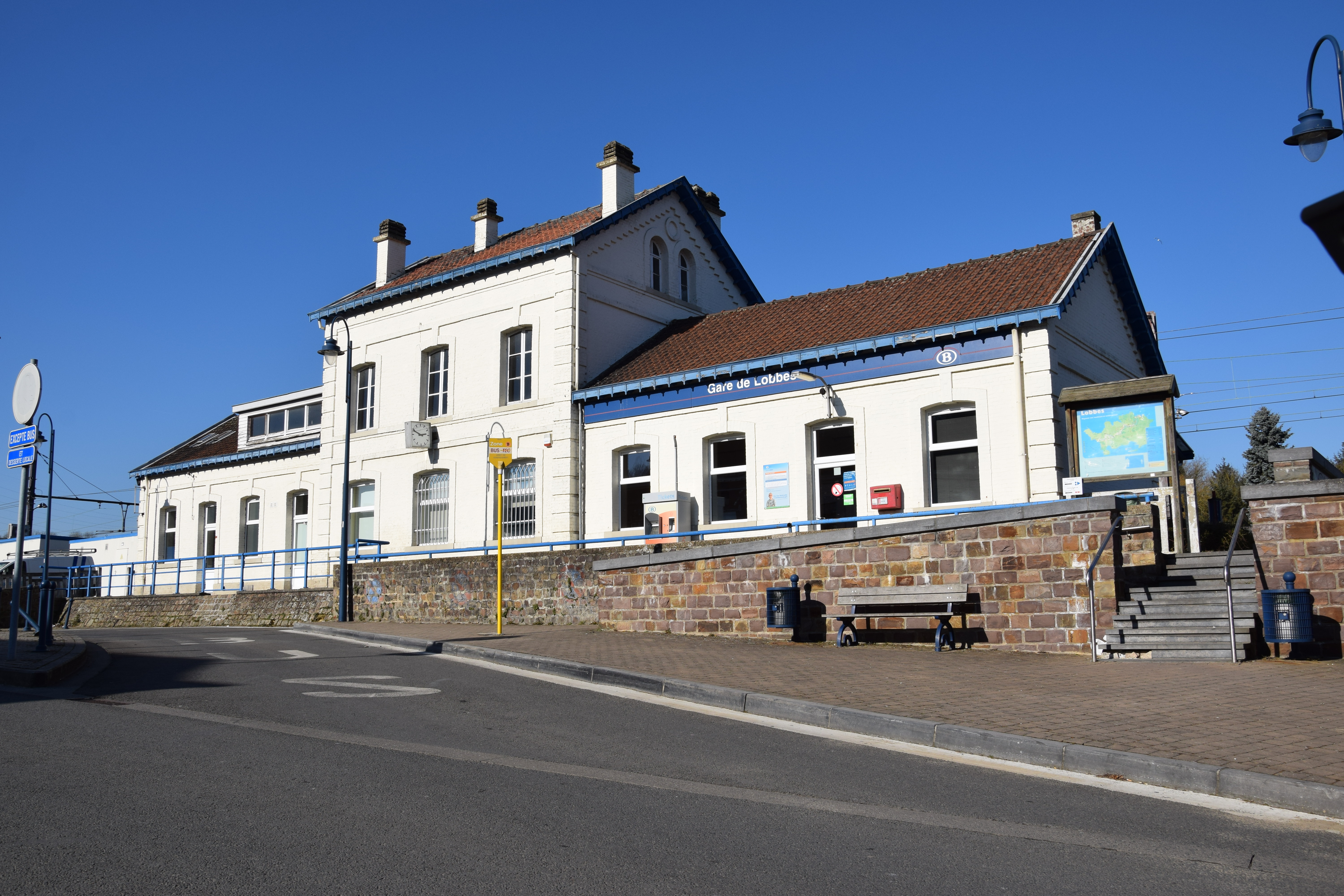 Lobbes train station